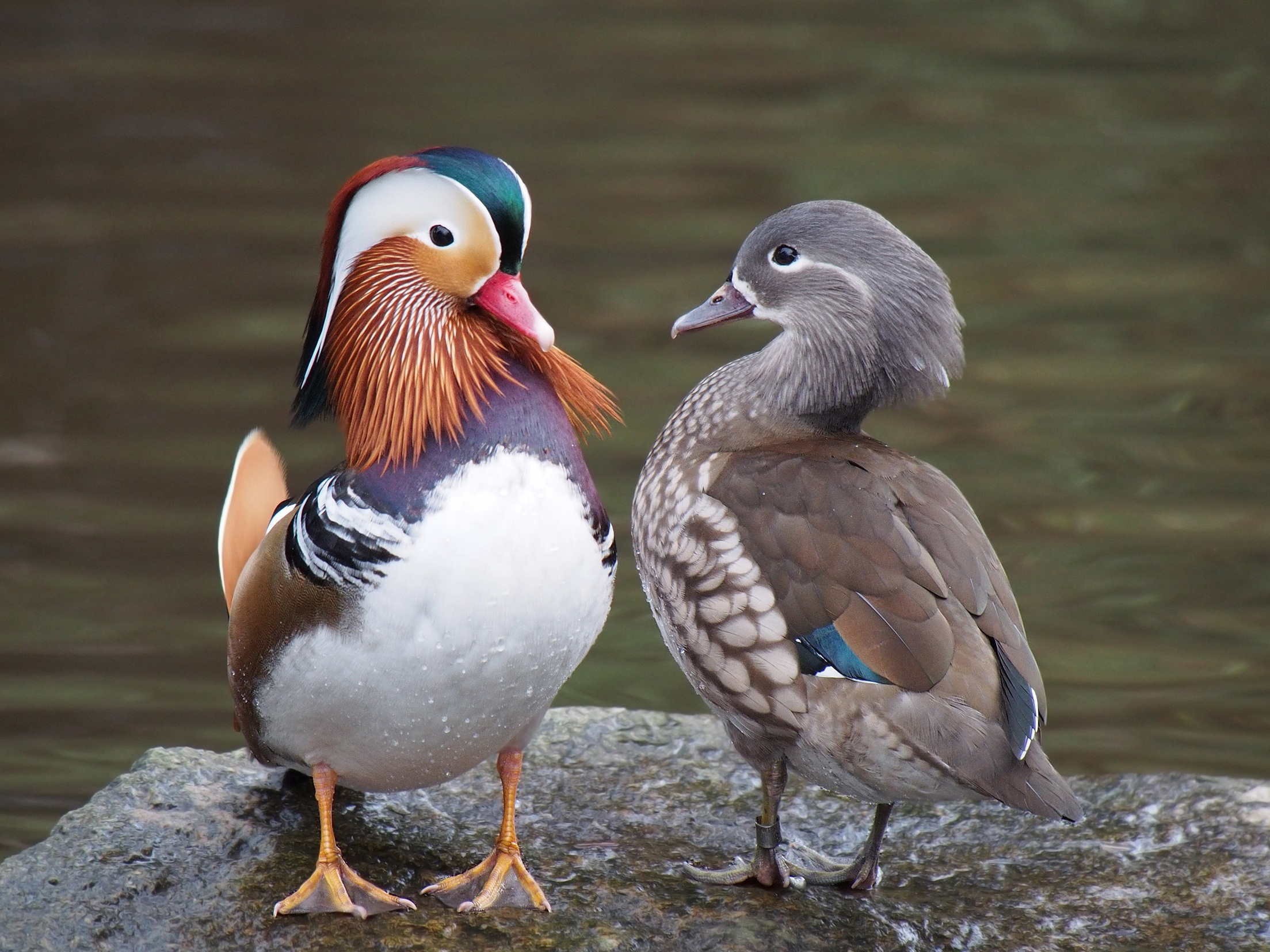 Pair of Mandarins (Aix galericulata), at Martin Mere, Lancashire, UK